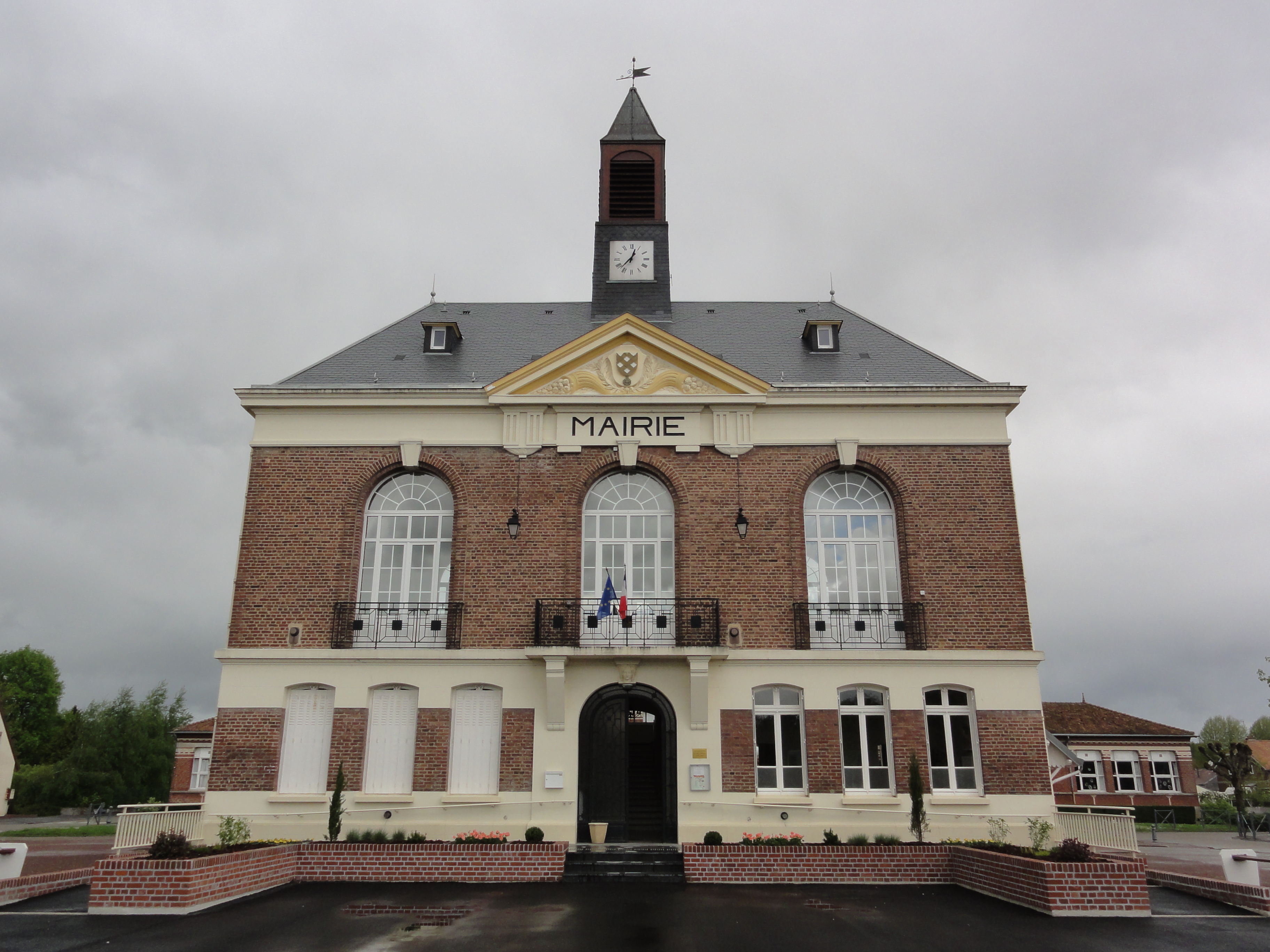 Moÿ-de-l'Aisne (Aisne) mairie